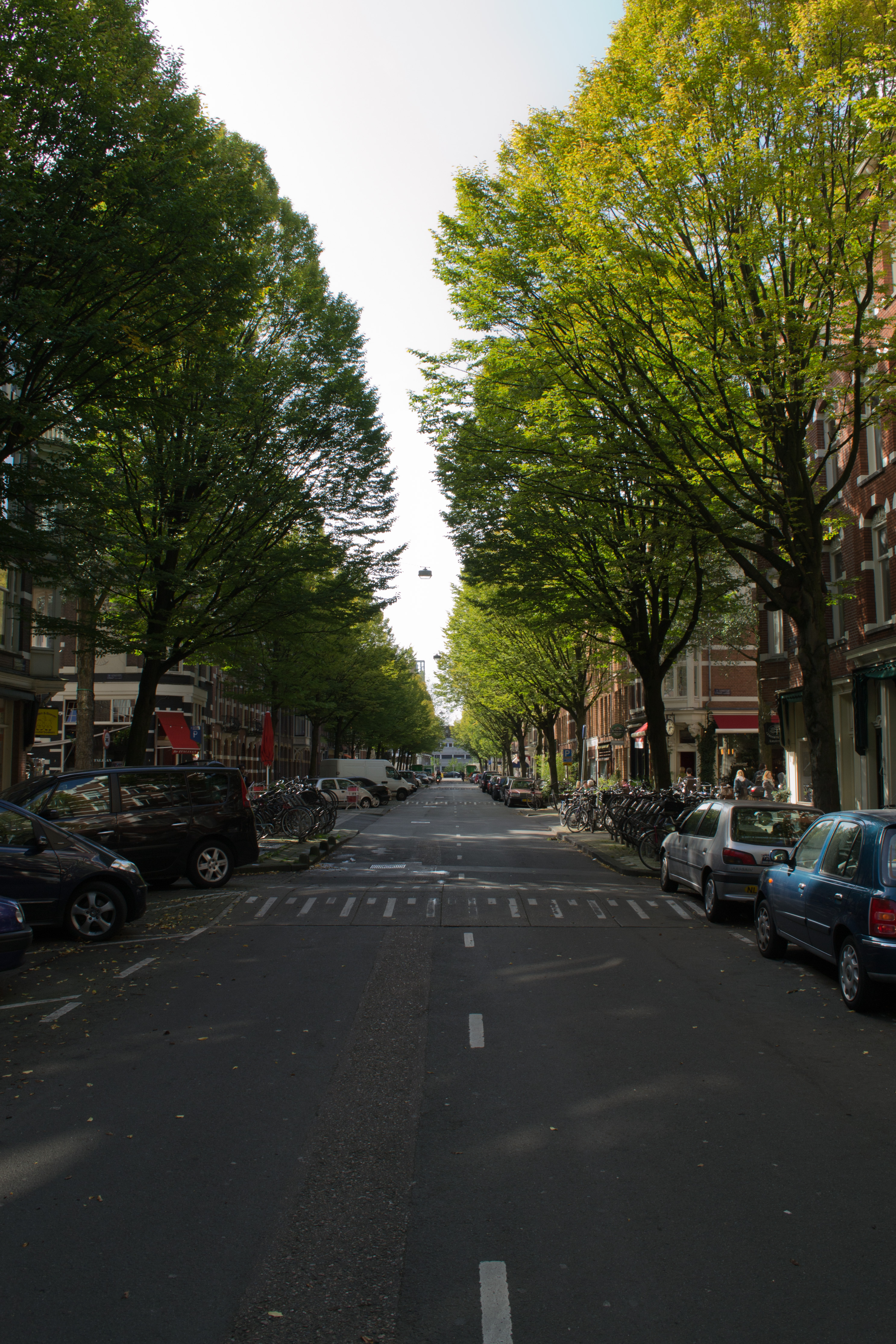 Bosboom Toussaintstraat